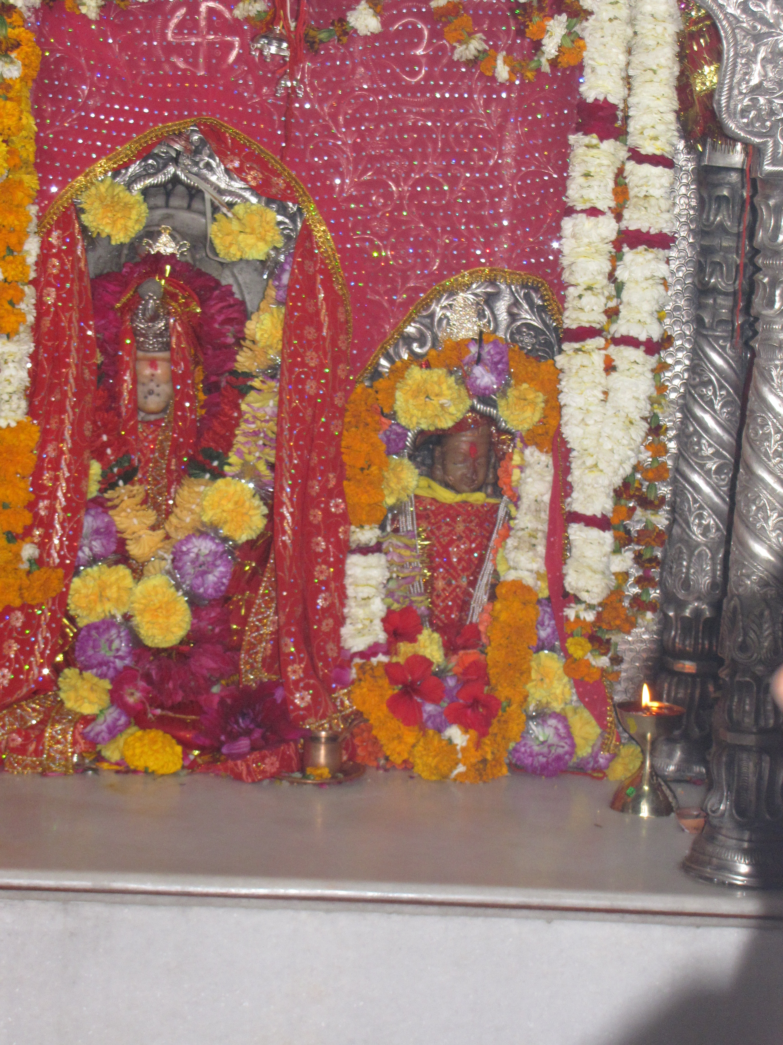 This picture is taken by author himself.